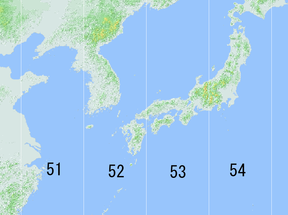 Universal Transverse Mercator zoning around Japan